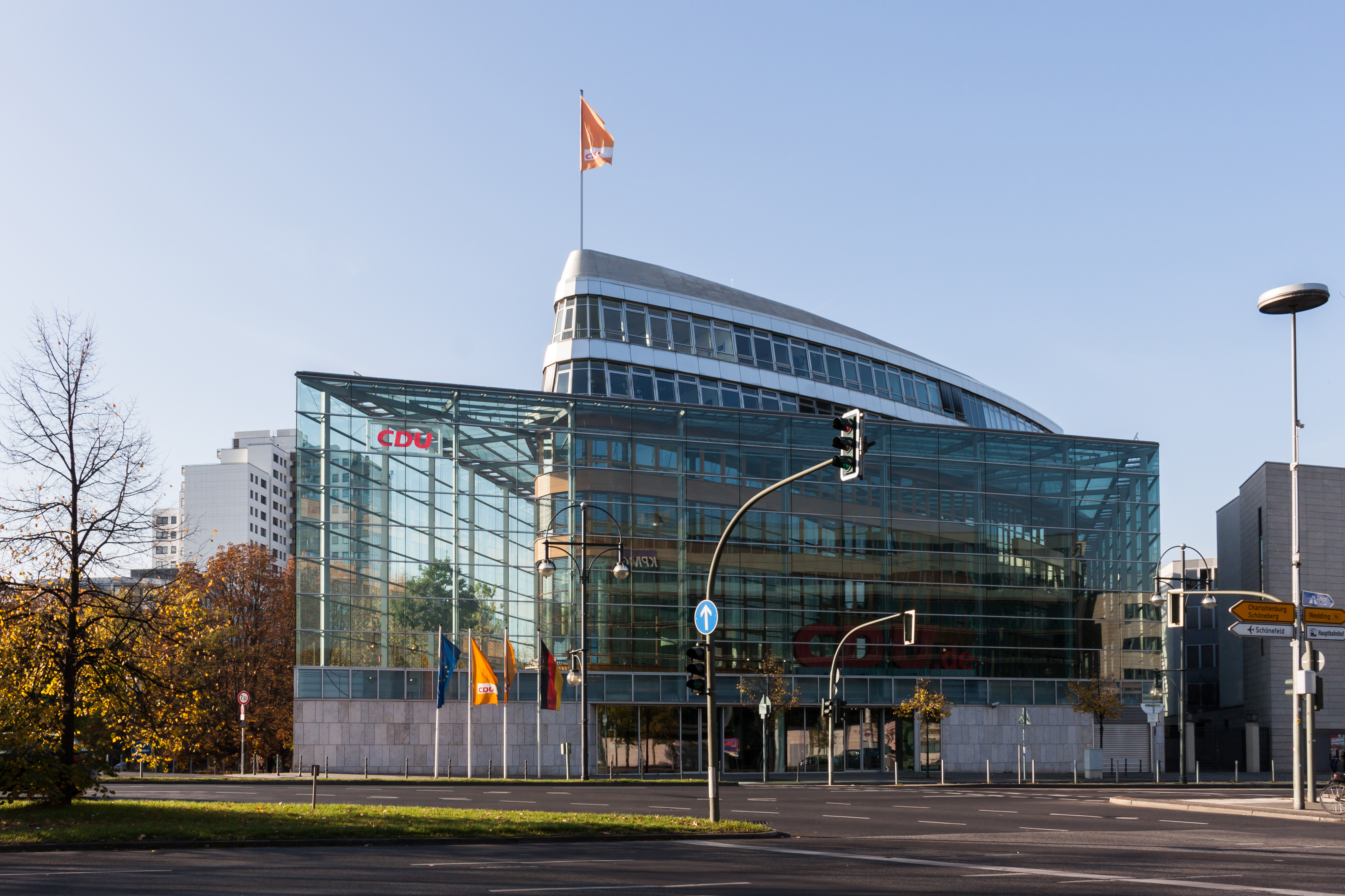 The Konrad-Adenauer-Haus in Berlin. It is the main office of the CDU and was built by the architects Petzinka Pink and partners.